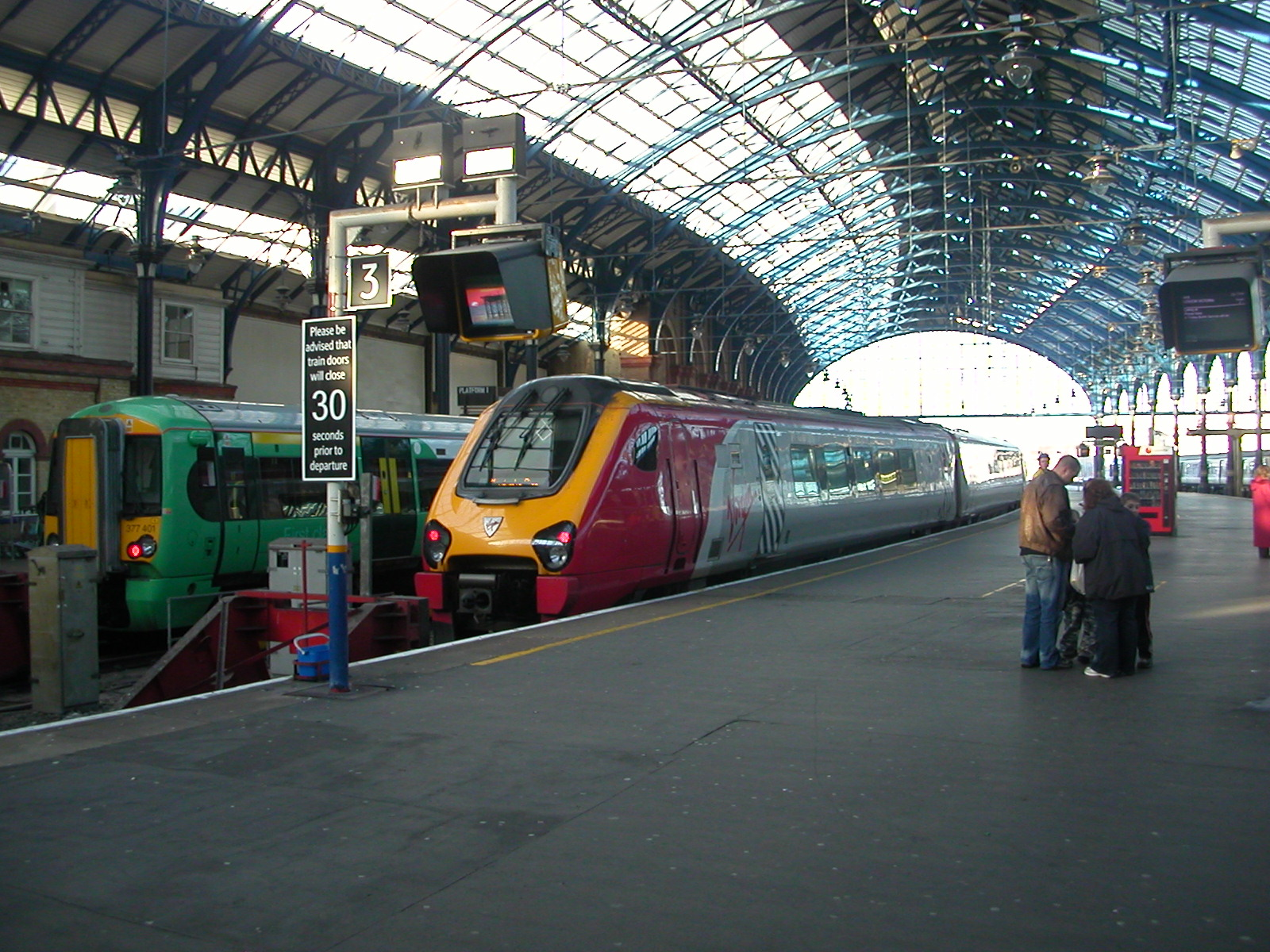 14:22 Virgin Trains service from Brighton to Manchester Piccadilly. Photographed on 9th December 2006.